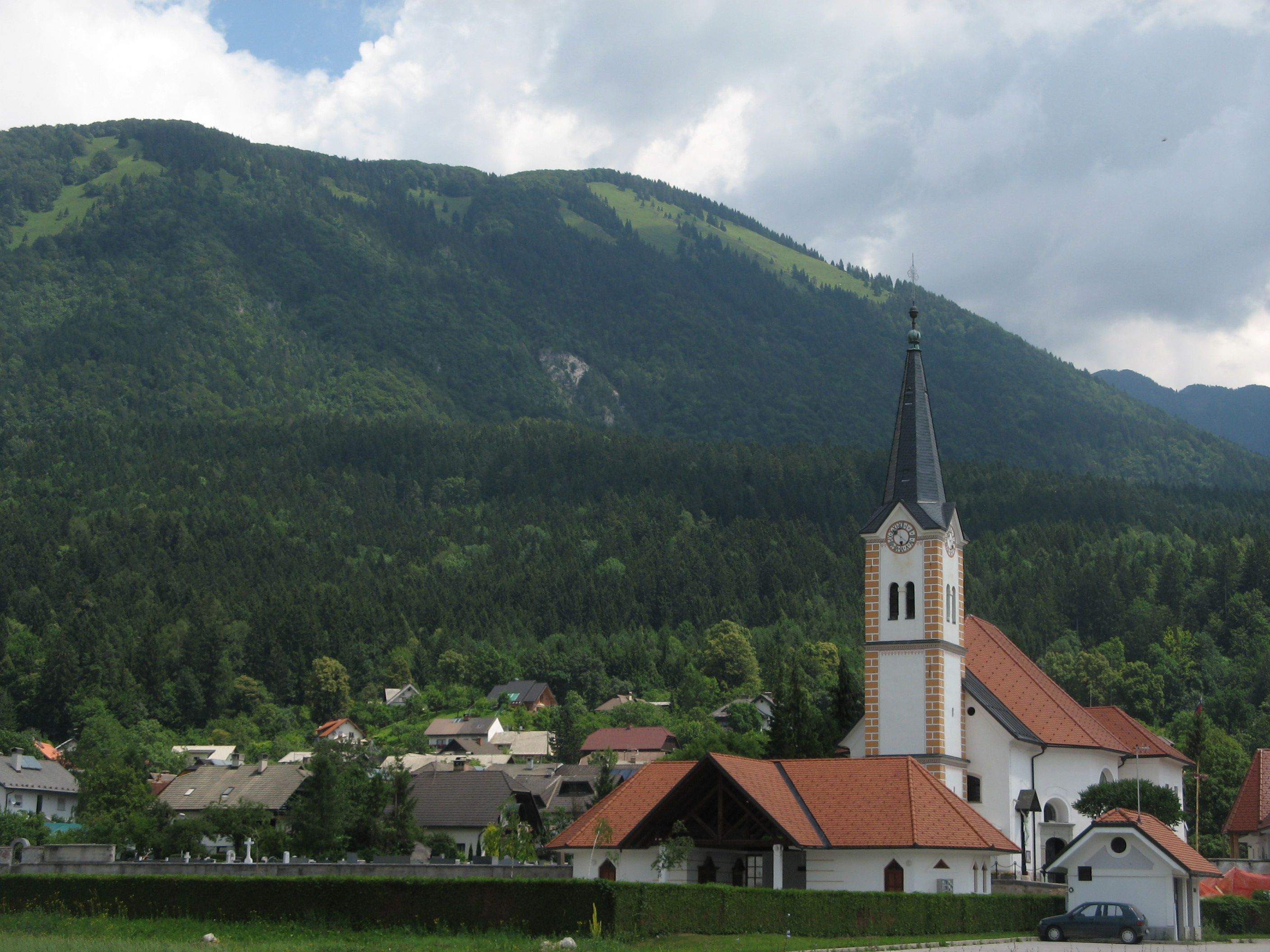 Village of Križe near Tržič in Slovenia with the church of the Cross